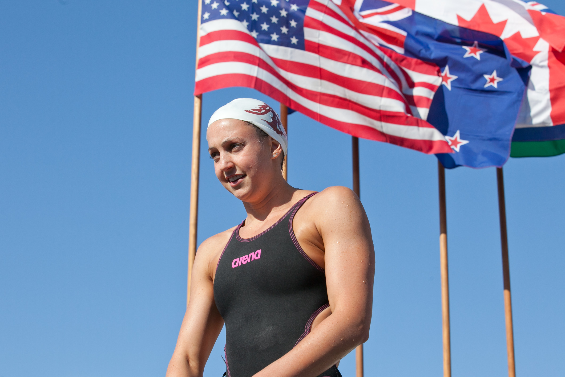 Rebecca Soni at the 2011 Santa Clara Invitational. Contact JD Lasica for re-publication rights at .